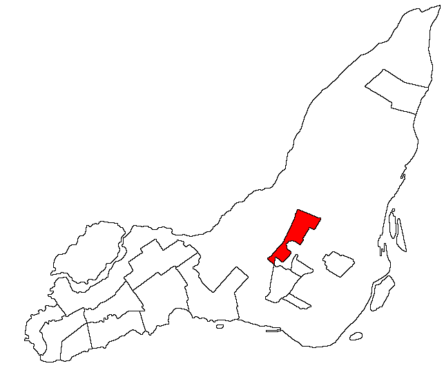 Map of Mont-Royal on the Isle of Montreal